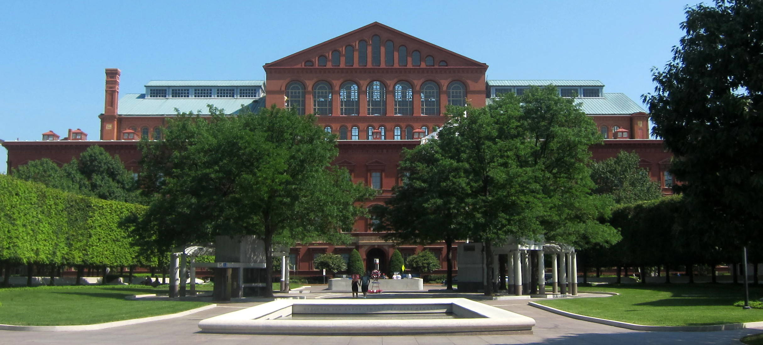 The National Law Enforcement Officers Memorial located at Judiciary Square in Washington, D.C. The National Building Museum is visible in the background.